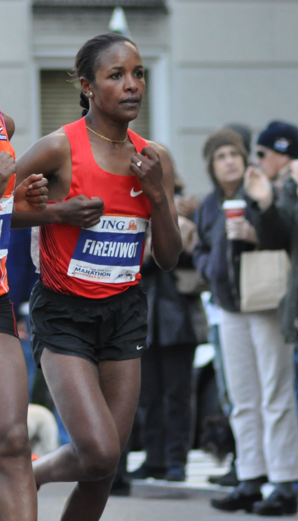 Firehiwot Dado during 2011 NYC Marathon